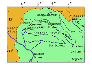 Overview of the Sokoto-Rima river system. The picture shows the northwestern corner of Nigeria (Green) and part of Niger (brown). Rivers are shown in blue, main cities in red with black text. Made by Jens Nielsen